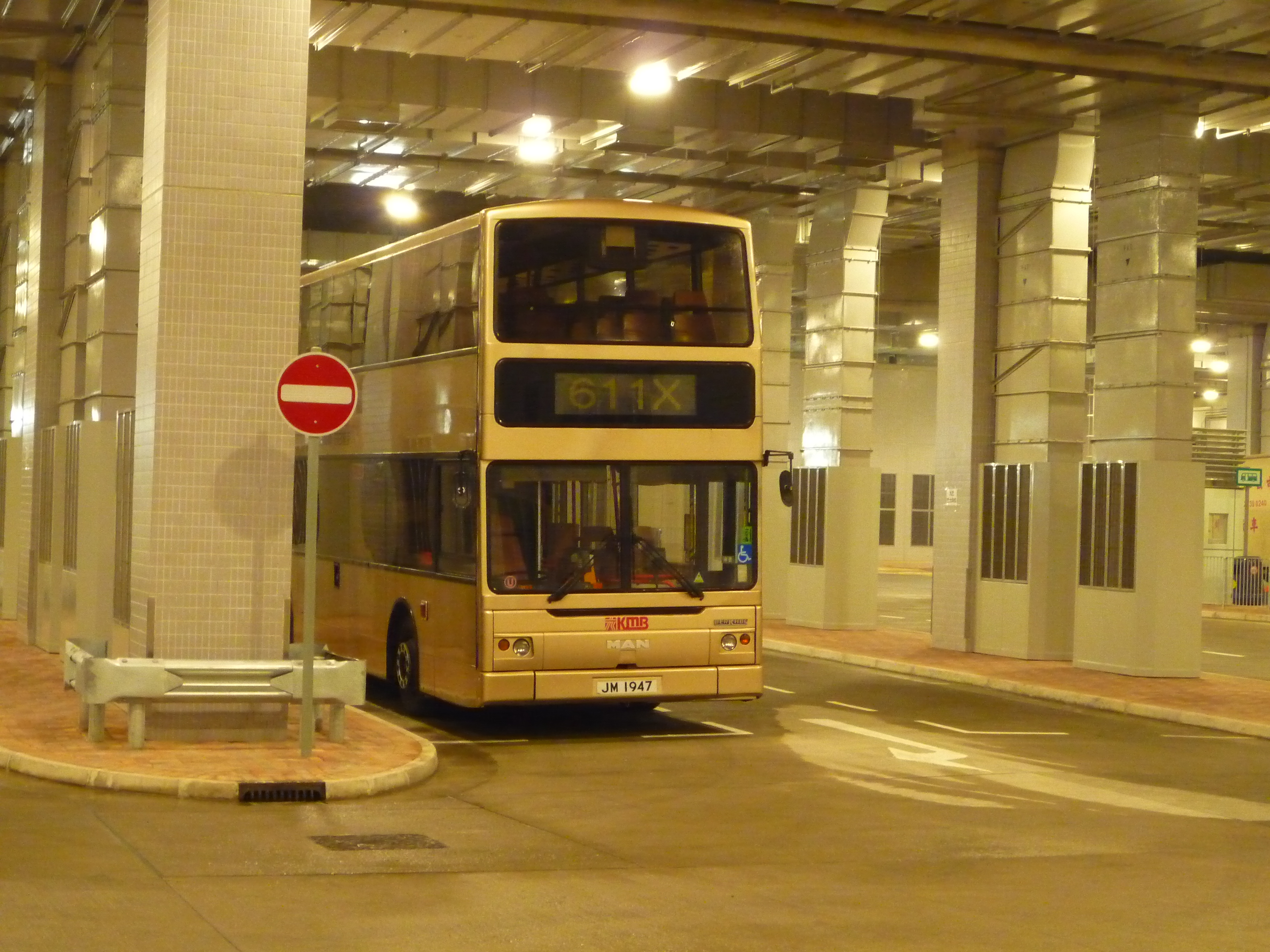 Kowloon Motor Bus' MAN 24.310 with Berkhof bodywork (reg. JM 1947) parking in Tuen Mun Station Public Transport Interchange.